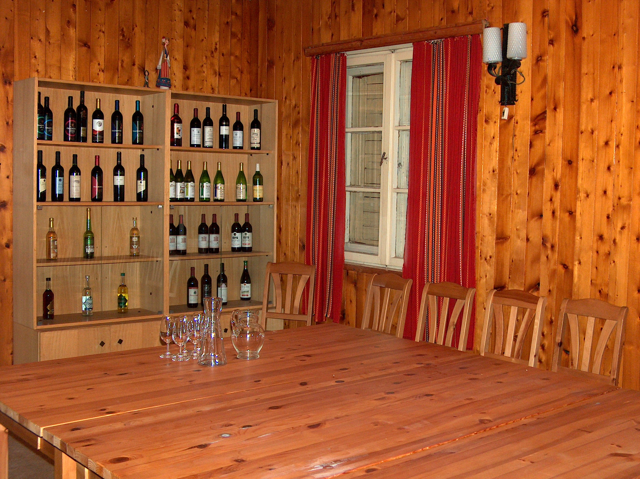 Oriahovica.vinatrska.izba.02.